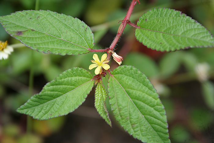 Description corrected as Corchorus aestuans in Hyderabad , India.